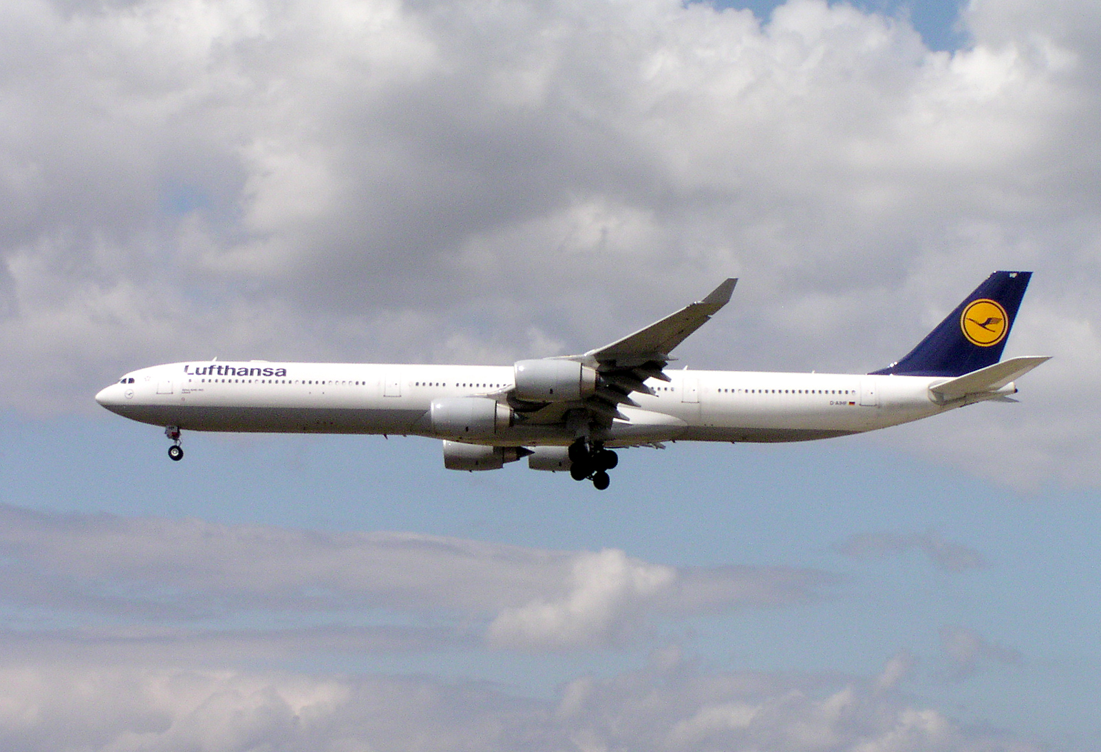 Description: Lufthansa A340-600 „Lübeck“ in Frankfurt/Main, July 2005. Photographer: Arcturus Licence: GFDL + cc-by-sa-2.0-de